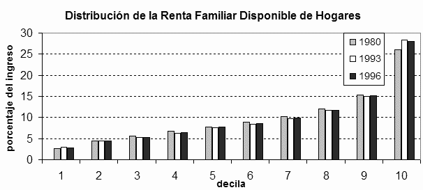 Evolution of % of income distribution by deciles in Spain. Based on data of INE